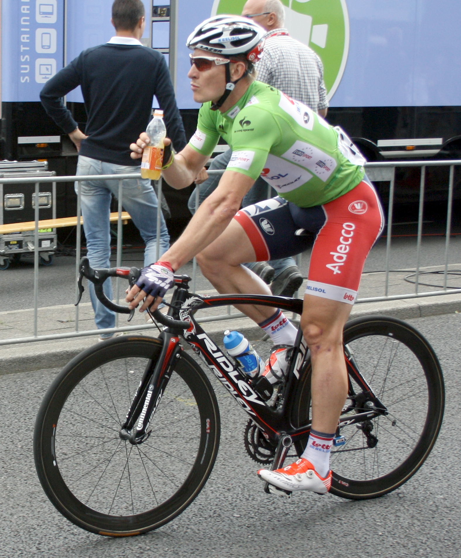 André Greipel